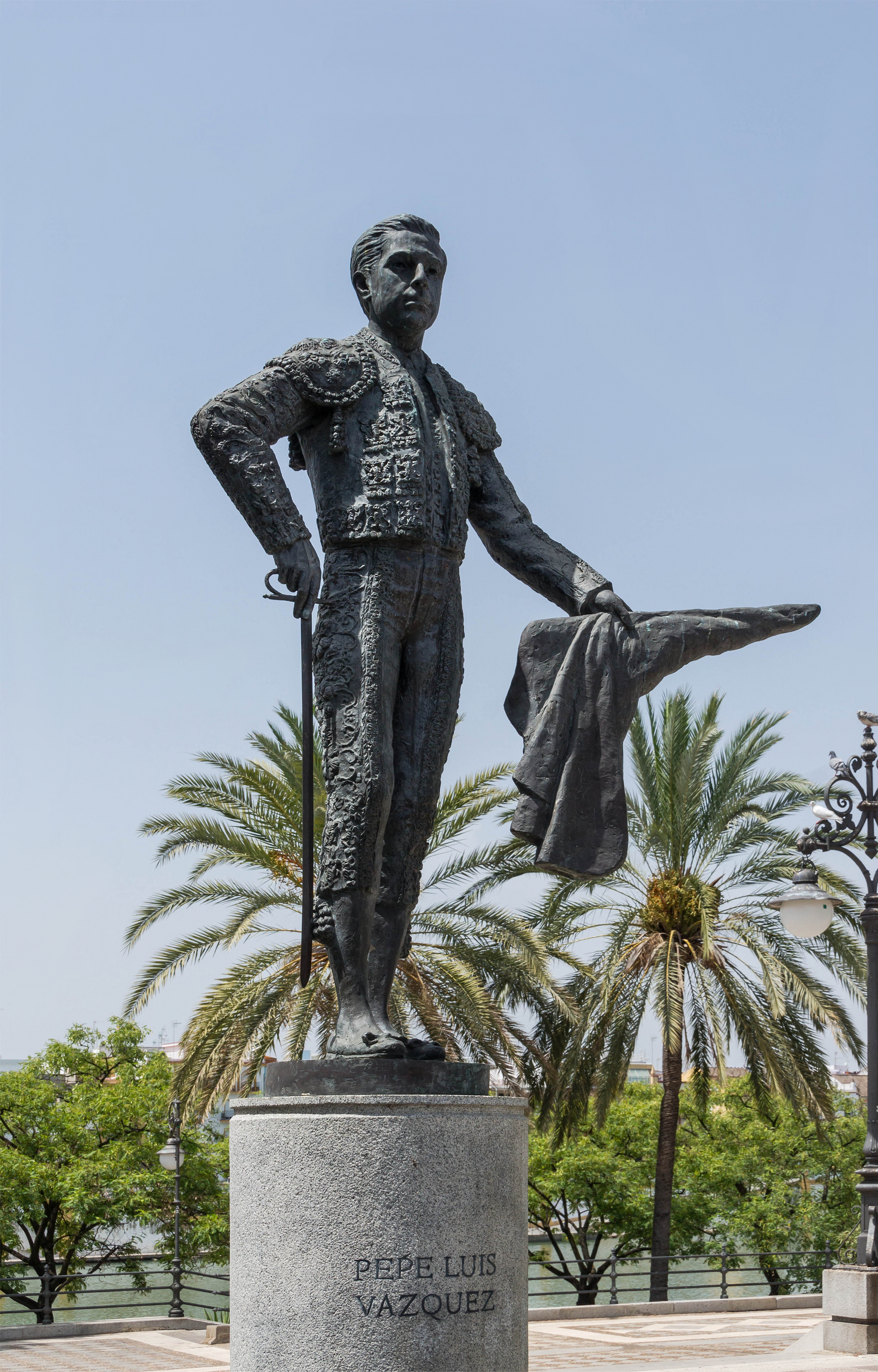 Bronze statue of Pepe Luis Vazquez, matador de toros, by Alberto German Franco, 2003, in front of the main entrance of the bullring of the Real Maestranza of Seville, Spain.